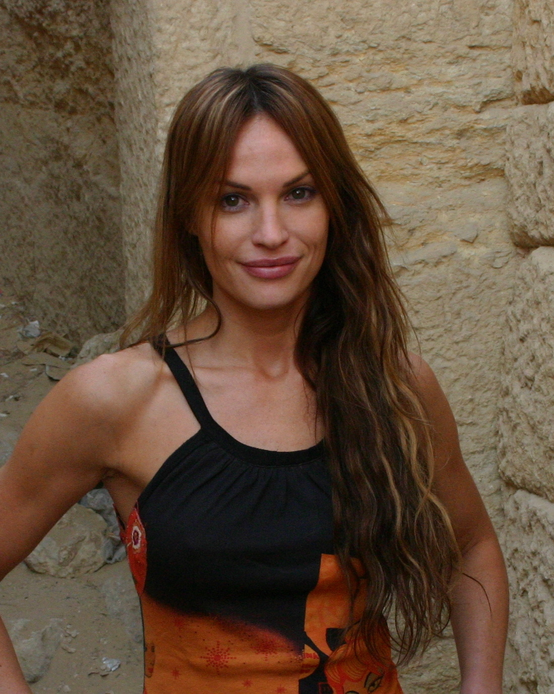 Jolene Blalock in Cairo, Egypt